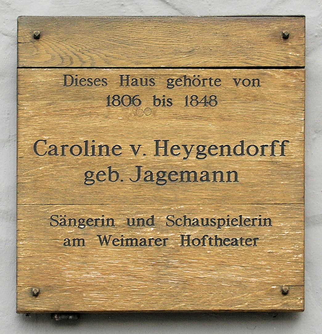 Memorial plaque, Karoline Jagemann, Herderplatz 16, Weimar, Germany Koordinate:52°58′54″N 11°19′45″E / 52.98167°N 11.32917°E